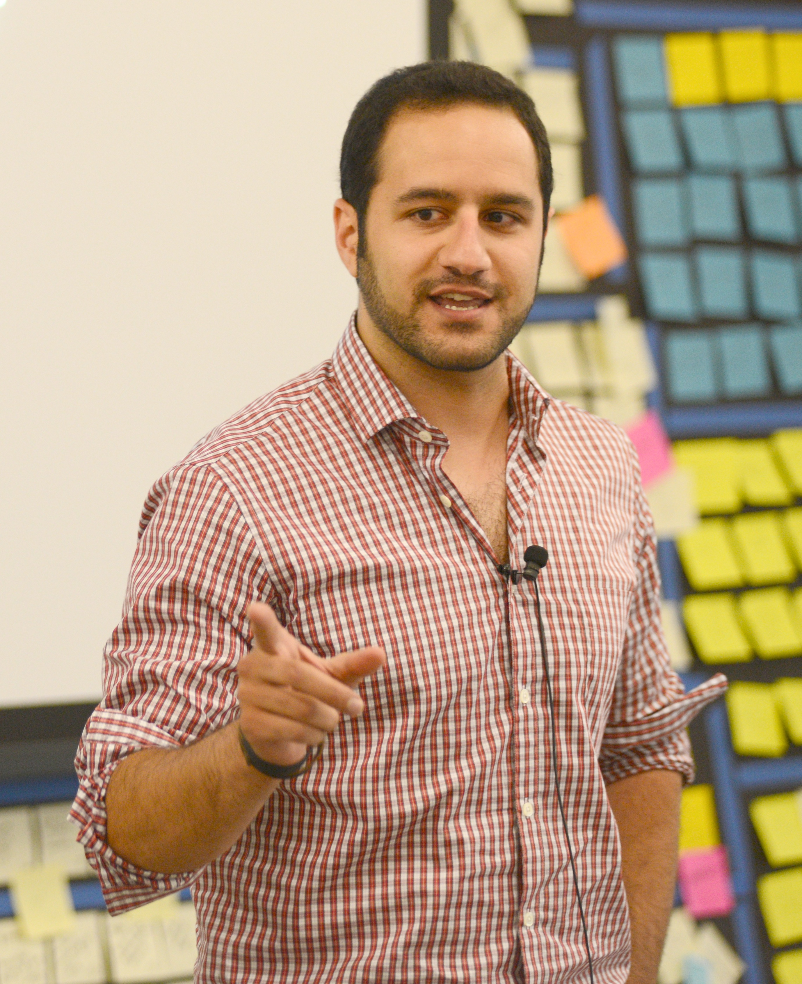 Tech Cocktail Sessions DC was held at Capital One Labs and it was an evening to remember! We learned from our amazing speakers Alexis Juneja - Co-Founder and VP, Strategic Development of Curbed Media and Hooman Radfar - Founder/Chairman of AddThis (formerly Clearspring). Pictures by Ben Droz (